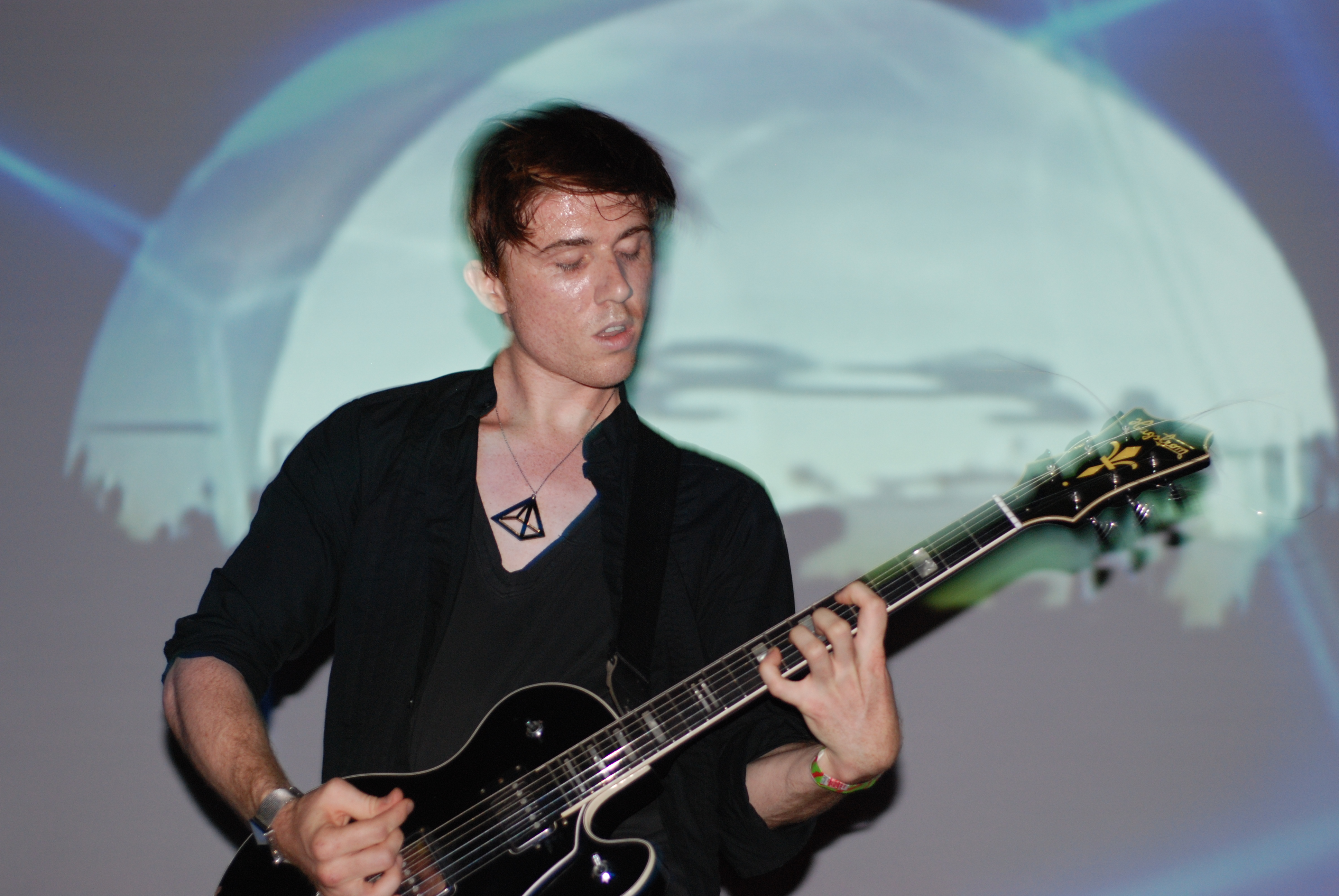 American guitarist, drummer, and songwriter Benjamin Curtis playing with School of Seven Bells at the Bowery Ballroom in New York City.